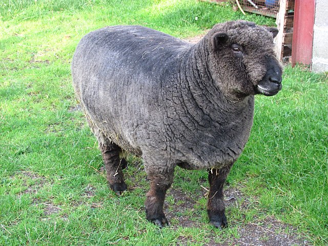 Coloured Ryeland tup - a heid banger; Ashford Carbonell, Shropshire, Great Britain. A controversial beast: coloured Ryelands are largely developed from a batch of black lambs born here in the early 1980s. They are popular with some due to the lovely wool colouring, but hated by purists for whom Ryelands have to be white. As a result they are now almost considered a separate breed and have their own classes in shows. This black sheep of the family is a bit of a nutter and like any ram,not to be trusted. Perhaps one of the more aggressive farm animals that I have encountered (nicknamed "Psycho").